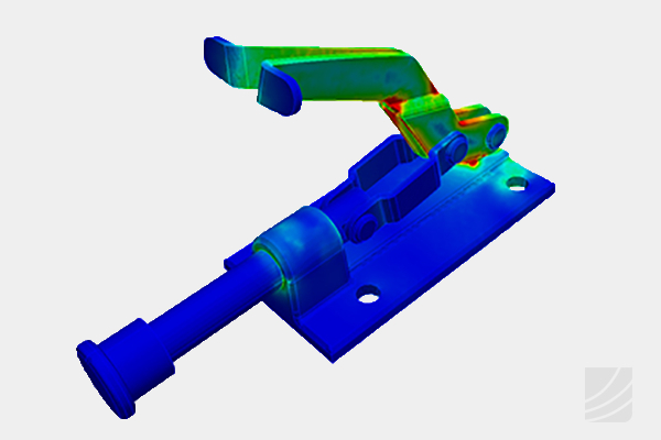 This image shows a linear analysis of a multibody system performed using SimScale software.